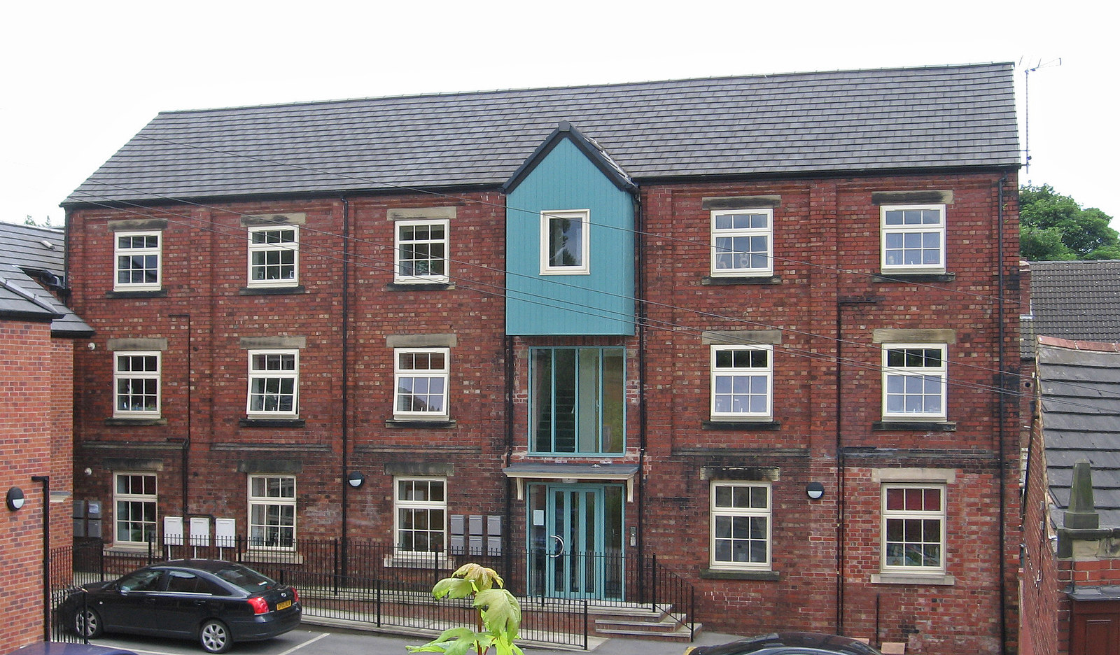 The former corn mill in South Elmsall